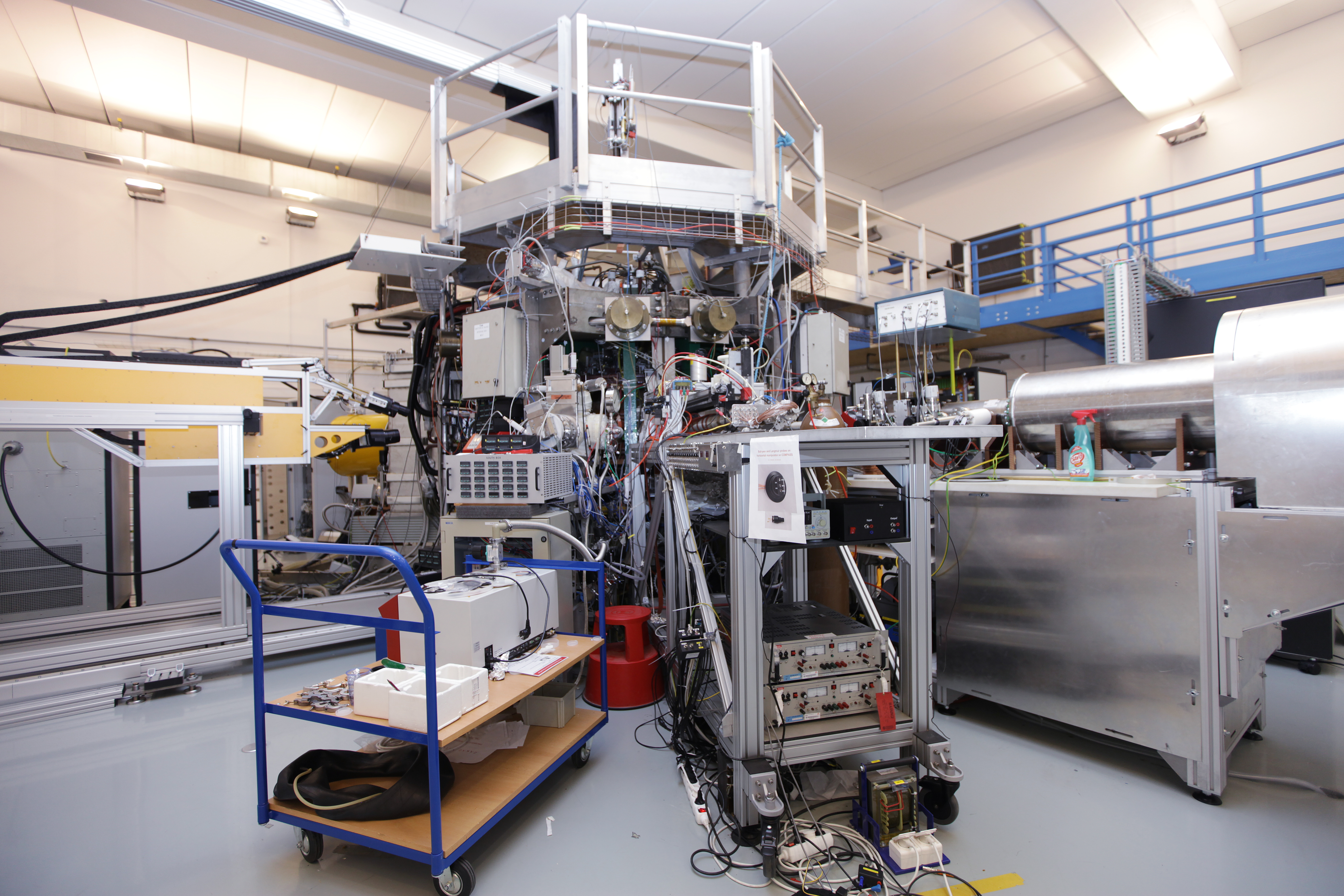 Tokamak COMPASS (COMPact ASSembly) is the main experimental facility of Tokamak department of Institute of Plasma Physics of the Academy of Sciences of the Czech Republic since 2006. It was designed in the 1980s in the British Culham Science Centre as a flexible research facility dedicated mostly to plasma physics studies in circular and D shaped plasmas.